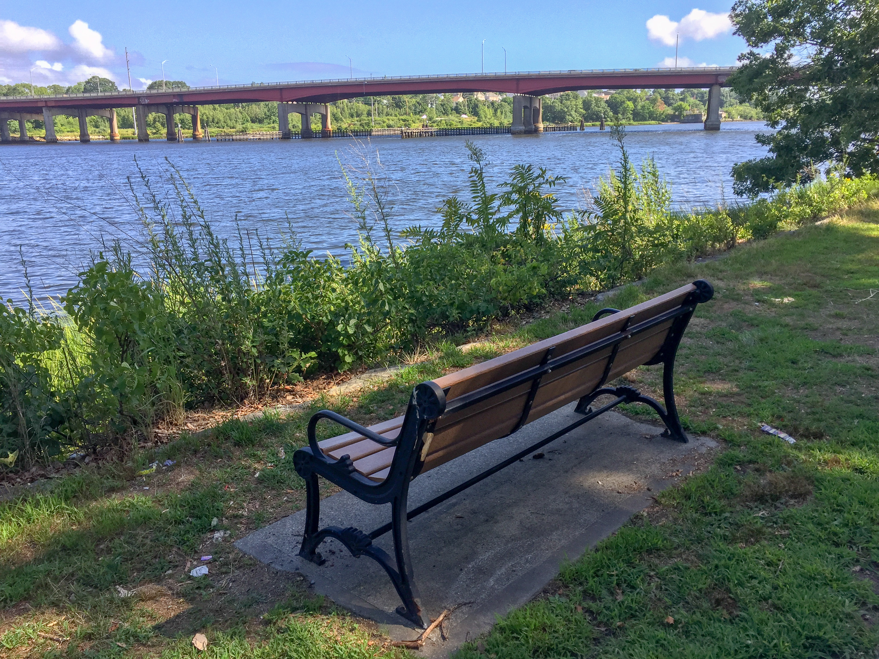 Looking out from Blackstone Park, Providence Rhode Island, toward the Henderson Bridge and Seekonk River.